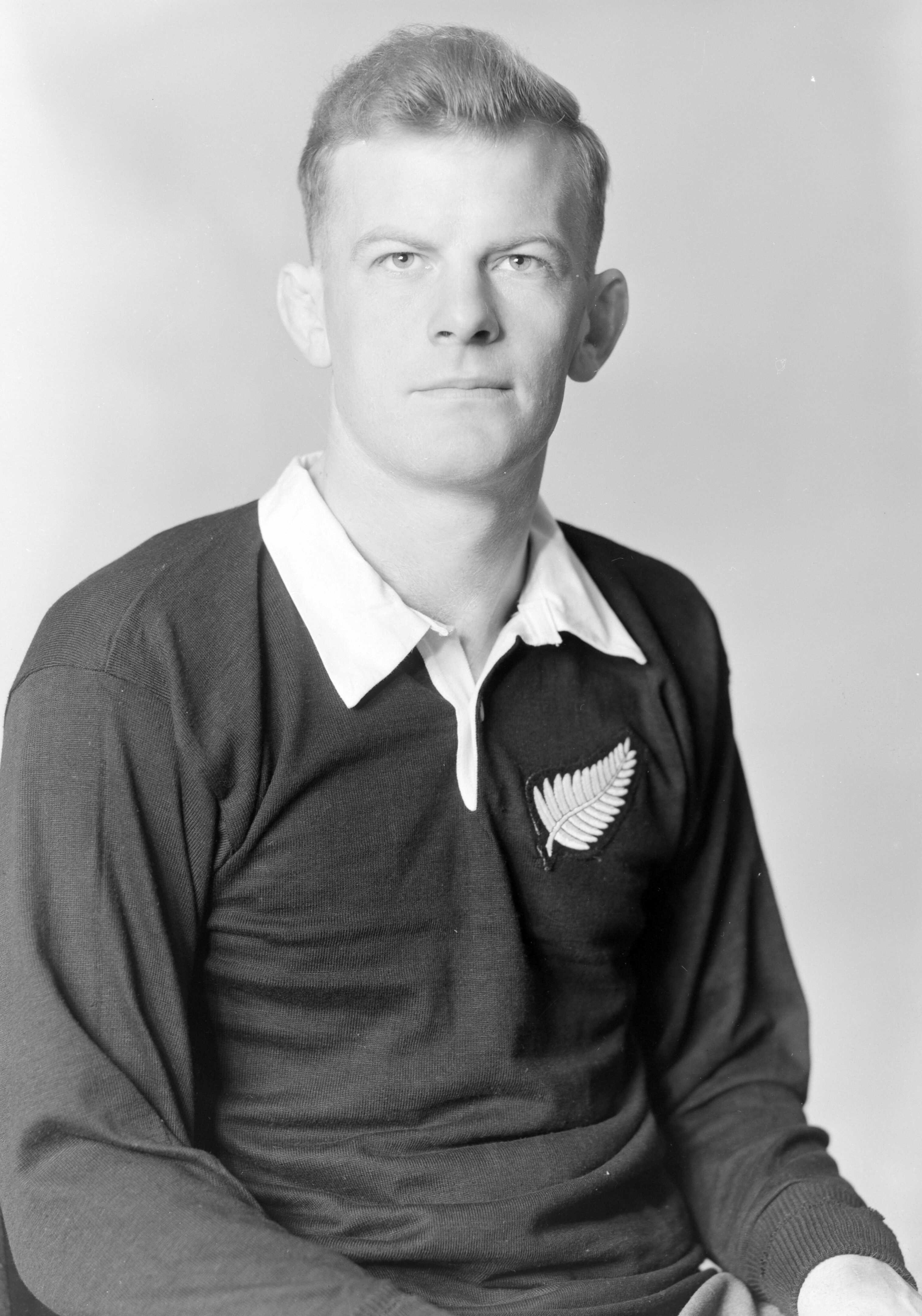 Photograph of rugby player David John Graham